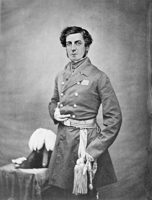 Crimean War 1854-56 Major General Sir William Eyre, KCB who commanded the 3rd Brigade and later the 3rd Division in the Crimea.